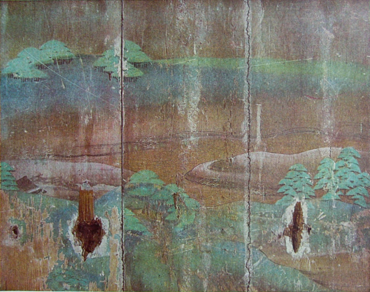 Wall Painting on South door of BYODOIN, Detail, ACE1053, UJI, KYOTO, Japan